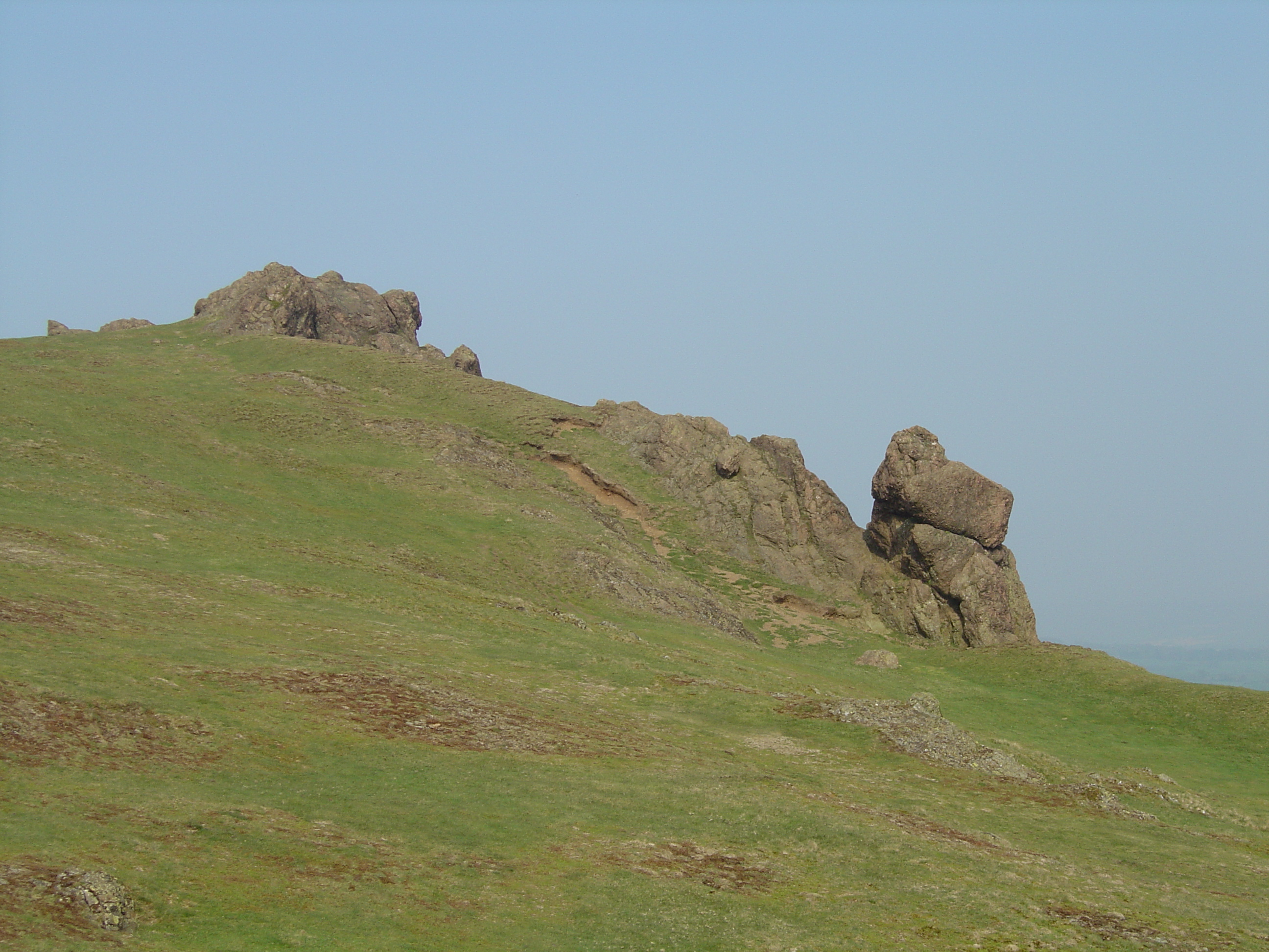 Caer Caradoc, near Church Stretton in Shropshire